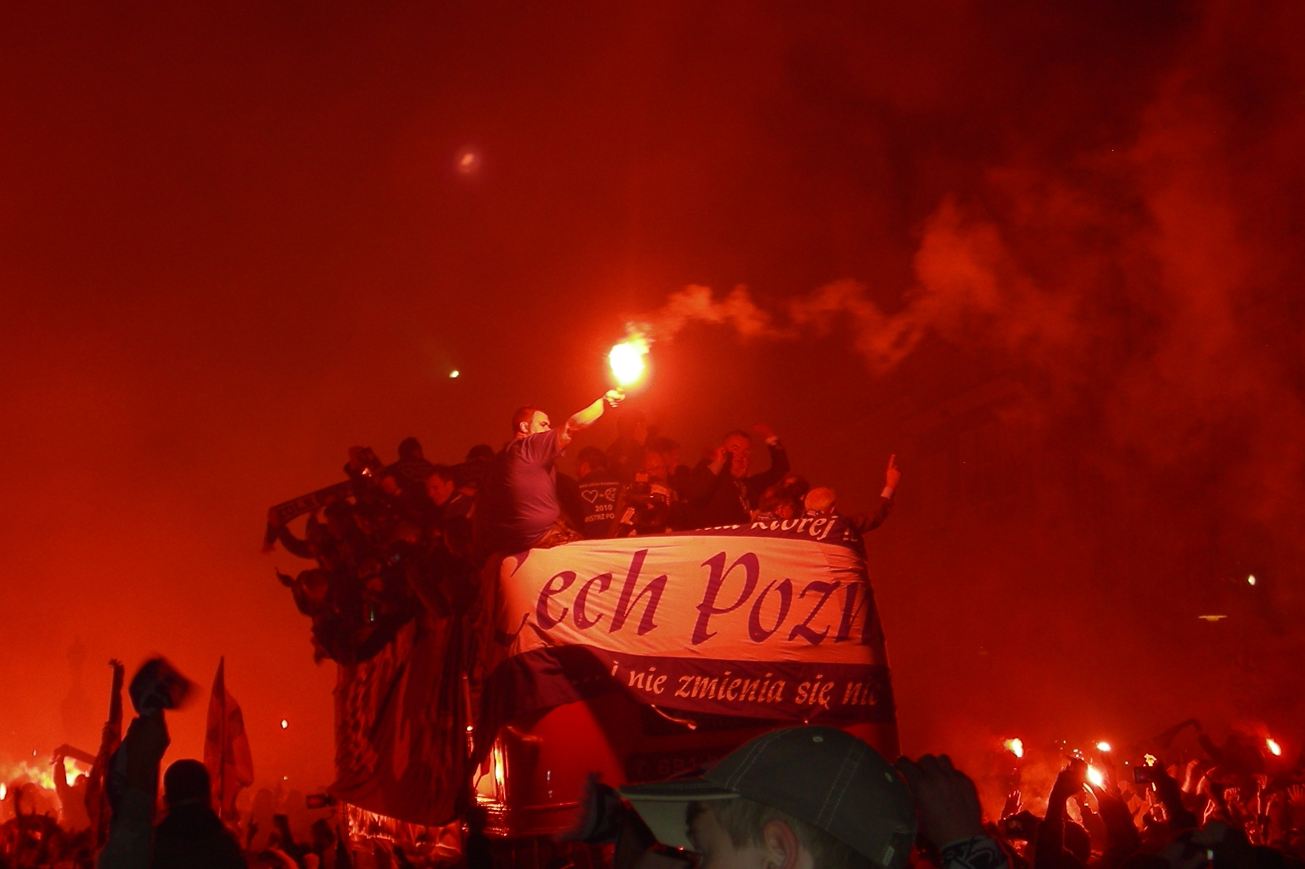 Players of football team Lech Poznań celebrating 1st place in the Lique. Stary Rynek, Poznań, Poland.